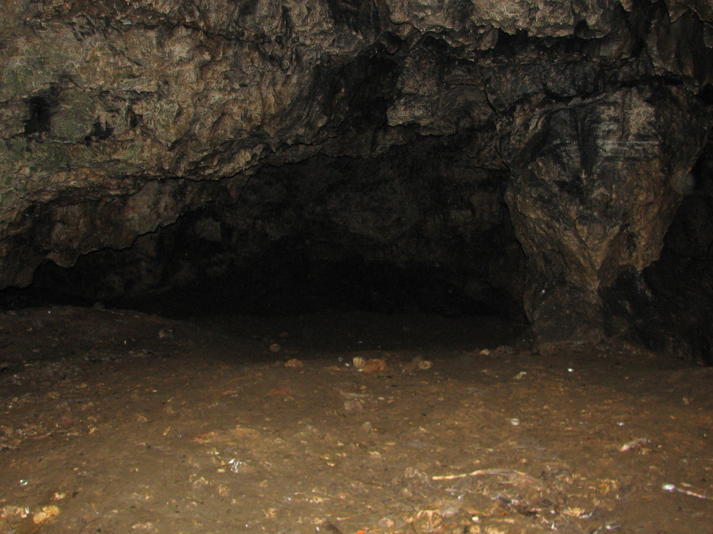 Interior of Twardowskiego Cave in Kraków, Poland.